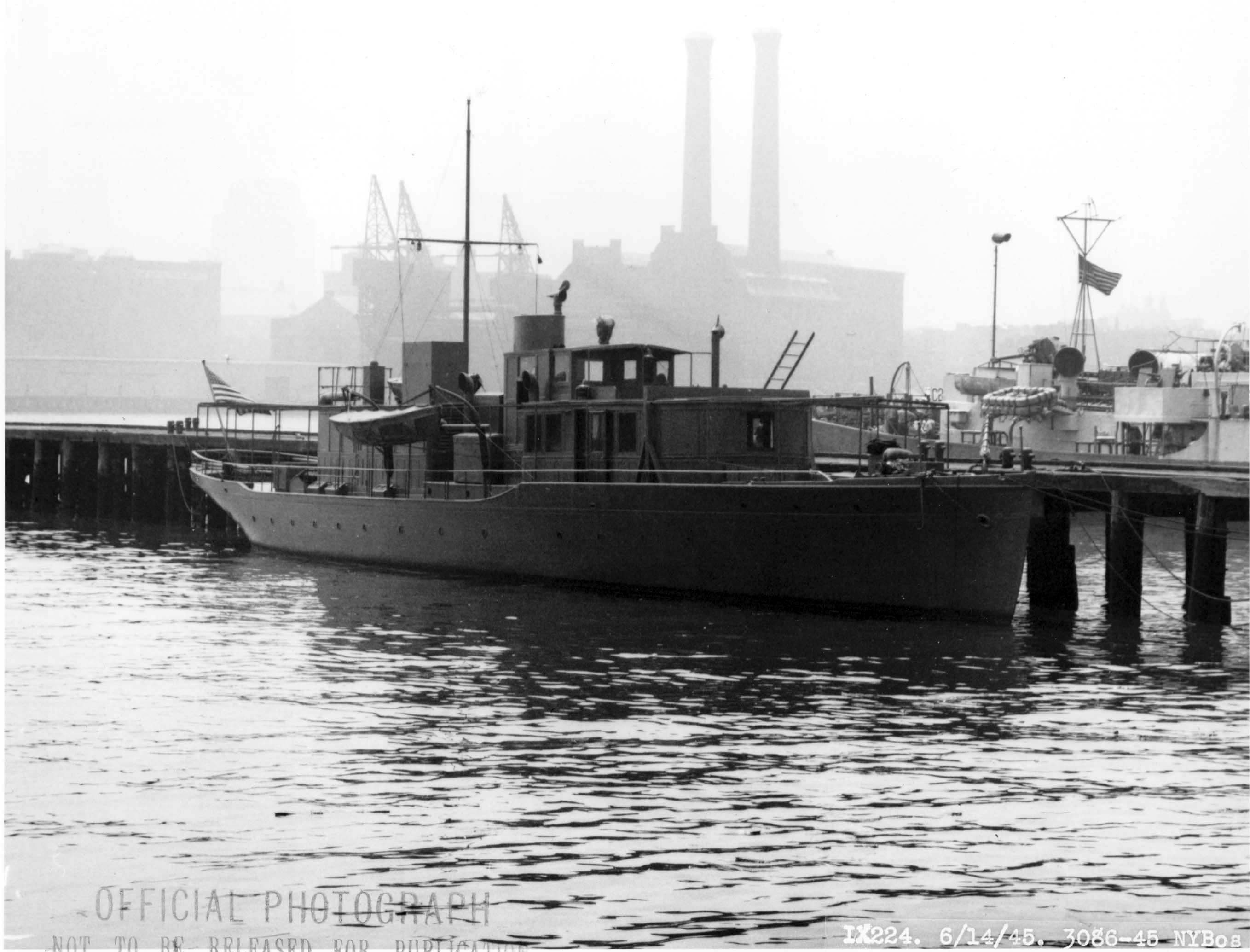 Broadside view of Aide de Camp (IX-224) at the Navy Local Defense Force base (Lockwood's Basin) base in East Boston, Mass., 14 June 1945. US Navy photo # NY2 3086-45, Boston National Historical Park Collection, NPS Cat. No. BOSTS-10151